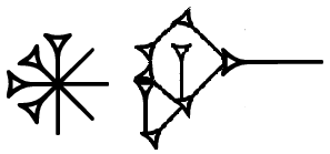 Neo-Sumerian ideogram for god Iškur